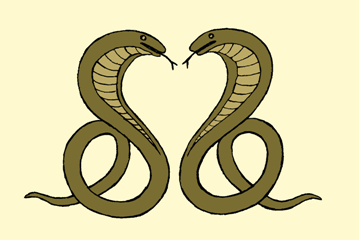 Kalahandi State Coat of Arms This work is in the public domain in India because its term of copyright has expired. The Indian Copyright Act applies in India, to works first published in India. According to The Indian Copyright Act, 1957 (Chapter V Section 25), Anonymous works, photographs, cinematographic works, sound recordings, government works, and works of corporate authorship or of international organizations enter the public domain 60 years after the date on which they were first published, counted from the beginning of the following calendar year (ie. as of 2016, works published prior to 1 January 1956 are considered public domain). Posthumous works (other than those above) enter the public domain after 60 years from publication date. Any other kind of work enters the public domain 60 years after the author's death. Text of laws, judicial opinions, and other government reports are free from copyright. Photographs created before 1958 are in the public domain 50 years after creation, as per the Copyright Act 1911. This file may not be in the public domain outside India. The creator and year of publication are essential information and must be provided. See Wikipedia:Public domain and Wikipedia:Copyrights for more details. This image shows a flag, a coat of arms, a seal or some other official insignia. The use of such symbols is restricted in many countries. These restrictions are independent of the copyright status.